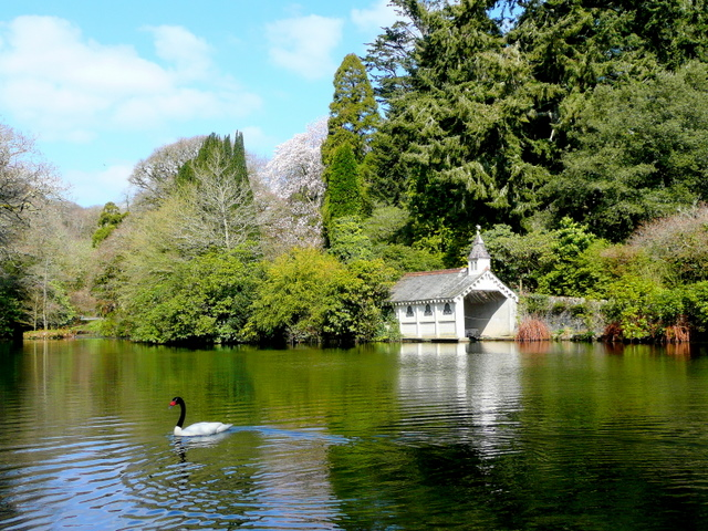 Picturesque; Lake at Trevarno Complete scene with boathouse, swan, and specimen trees.